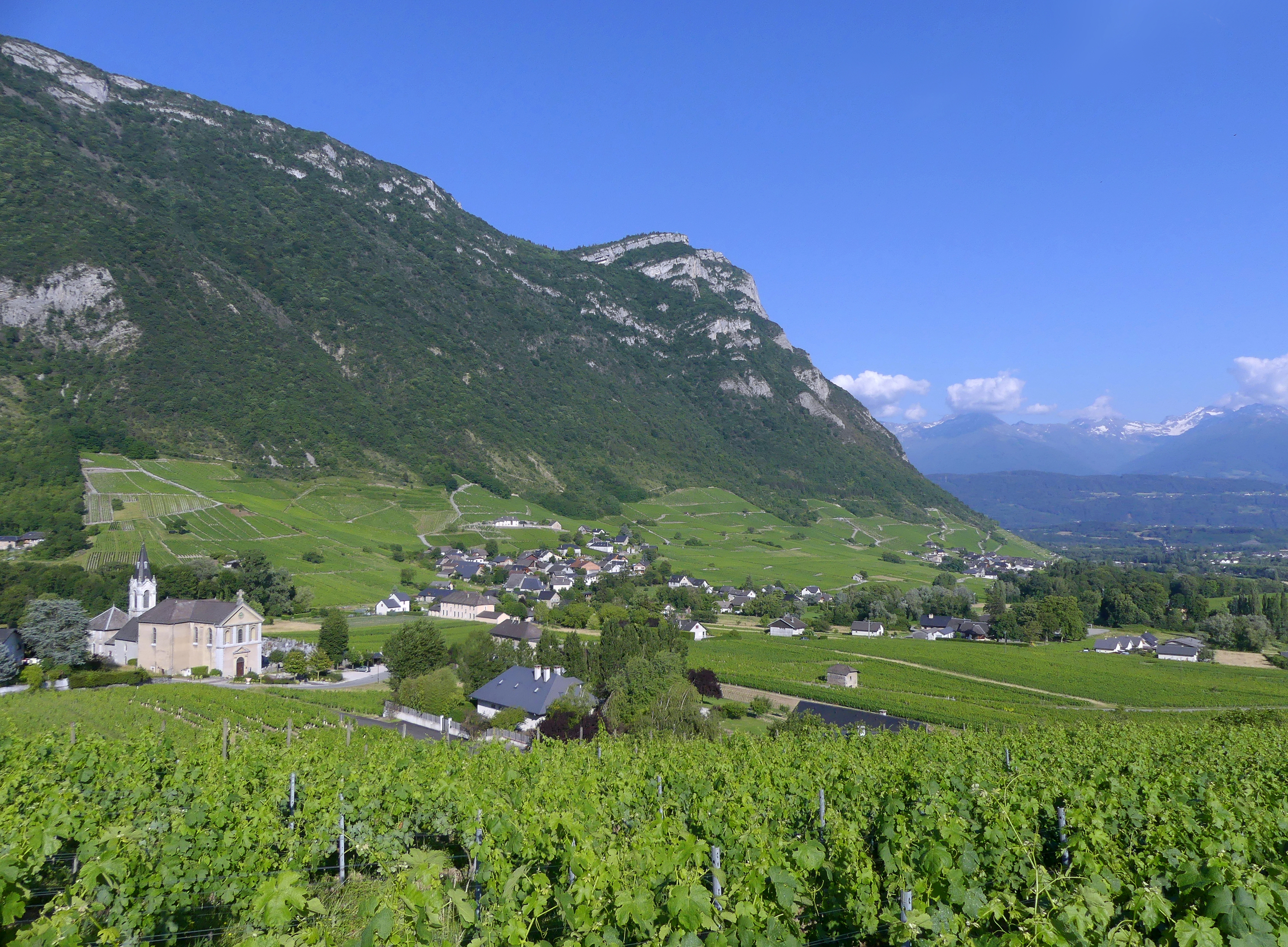 Panoramic sight, in the evening, of Chignin territory and its church, main village and vineyards, at the foot of Bauges mountain range, in Savoie, France.